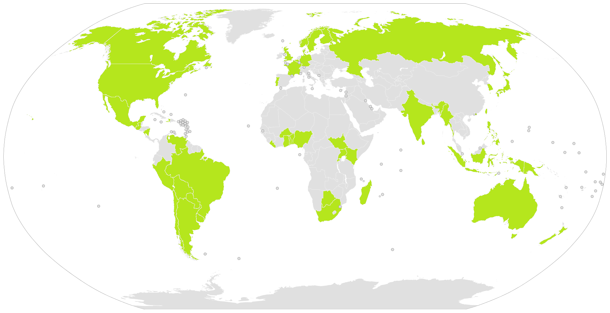 Light green countries are home to one or more members or associate members of the International Lutheran Council